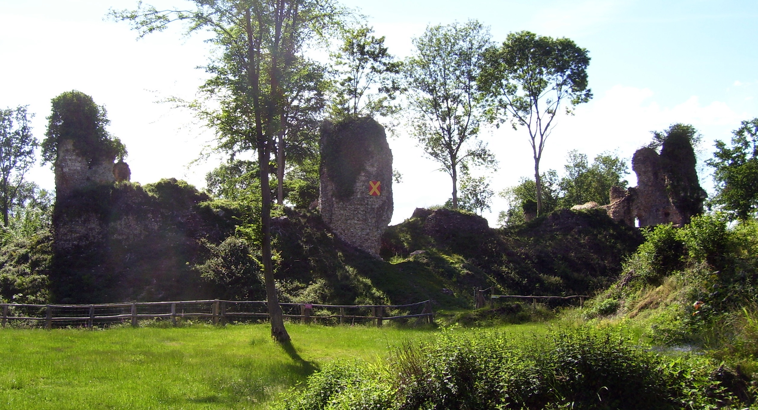 The medieval castle of Montfort-sur-Risle (departement Eure, Haute-Normandie, France) was built in 11th century.